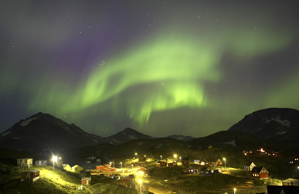 Northern lights over Kulusuk, Greenland